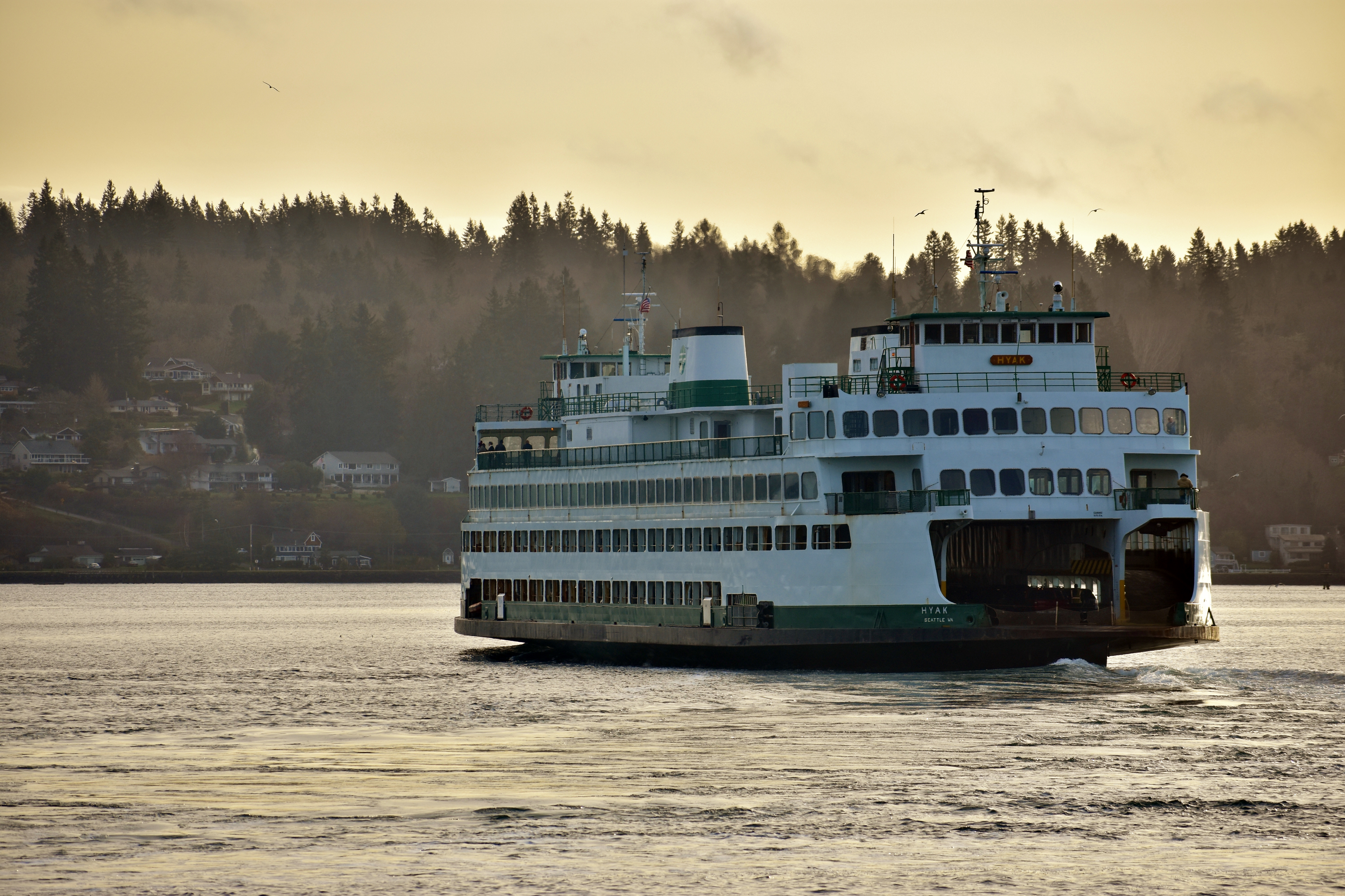 Viewed from the Fountain Park, the M/V Hyak departs Bremerton for Seattle at her 9:45 AM sailing.